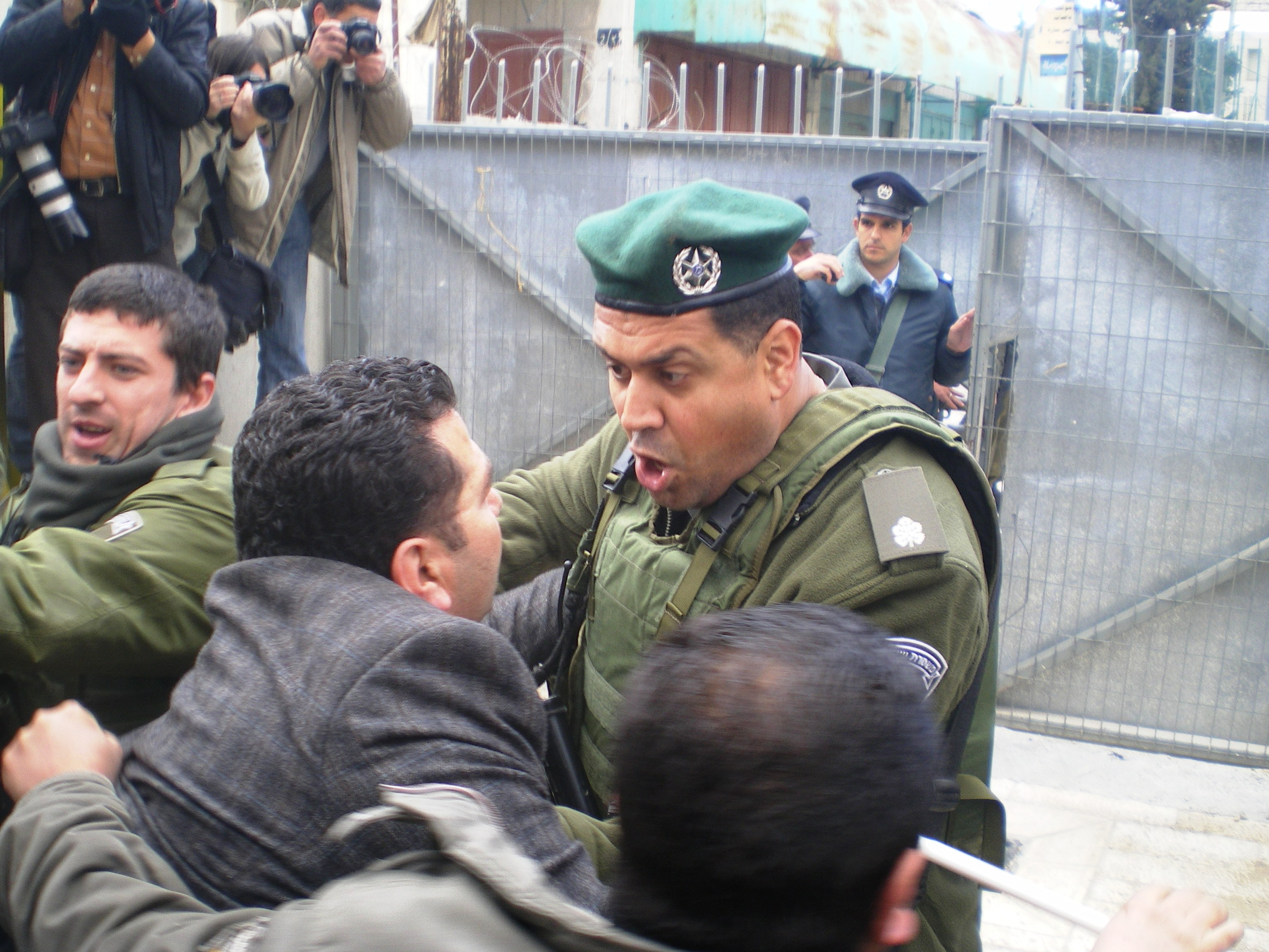 11:30am on Saturday, the 28th of March, Israeli forces violently dispersed a Hebron demonstration, firing tear gas and sound bombs and arresting one German solidarity activist.